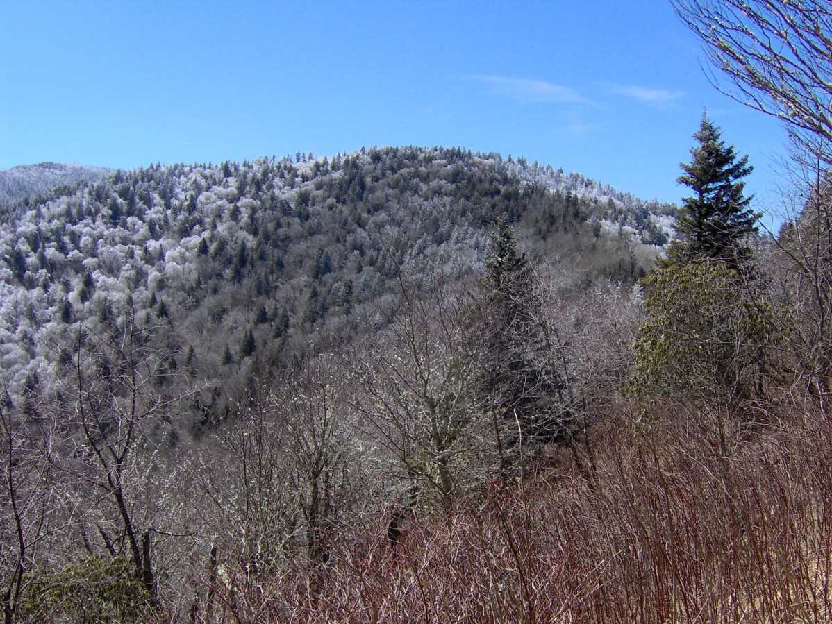 Old Black, west from the Appalachian Trail as it crosses Inadu Knob. The elevation at this point on the trail is approximately 6,000 feet/1,828 meters. The elevation of Old Black is 6,370 feet/1,941 meters. The summit of Mt. Guyot is visible on the far left.